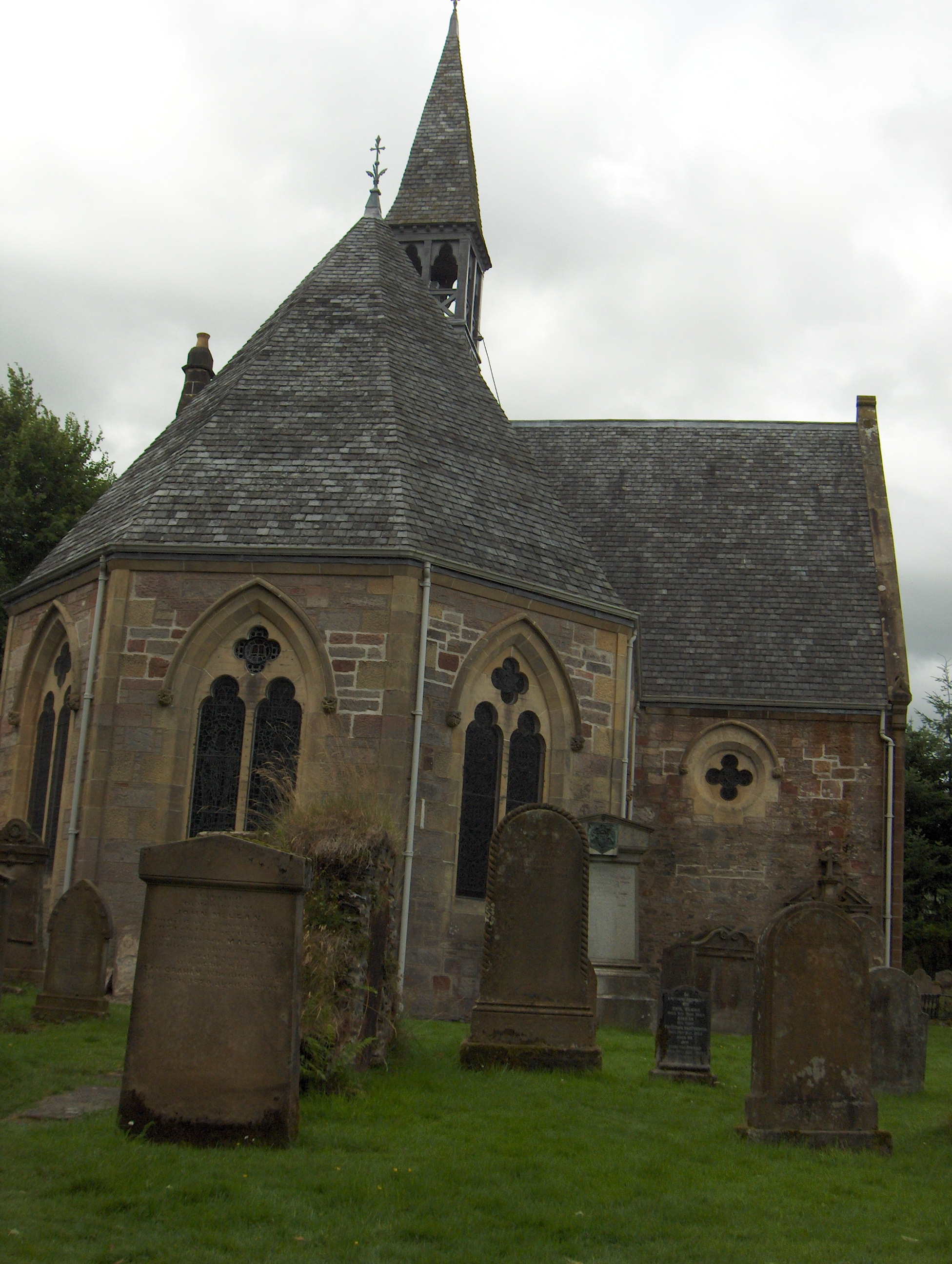 Chapel of Luss (village in Scotland).